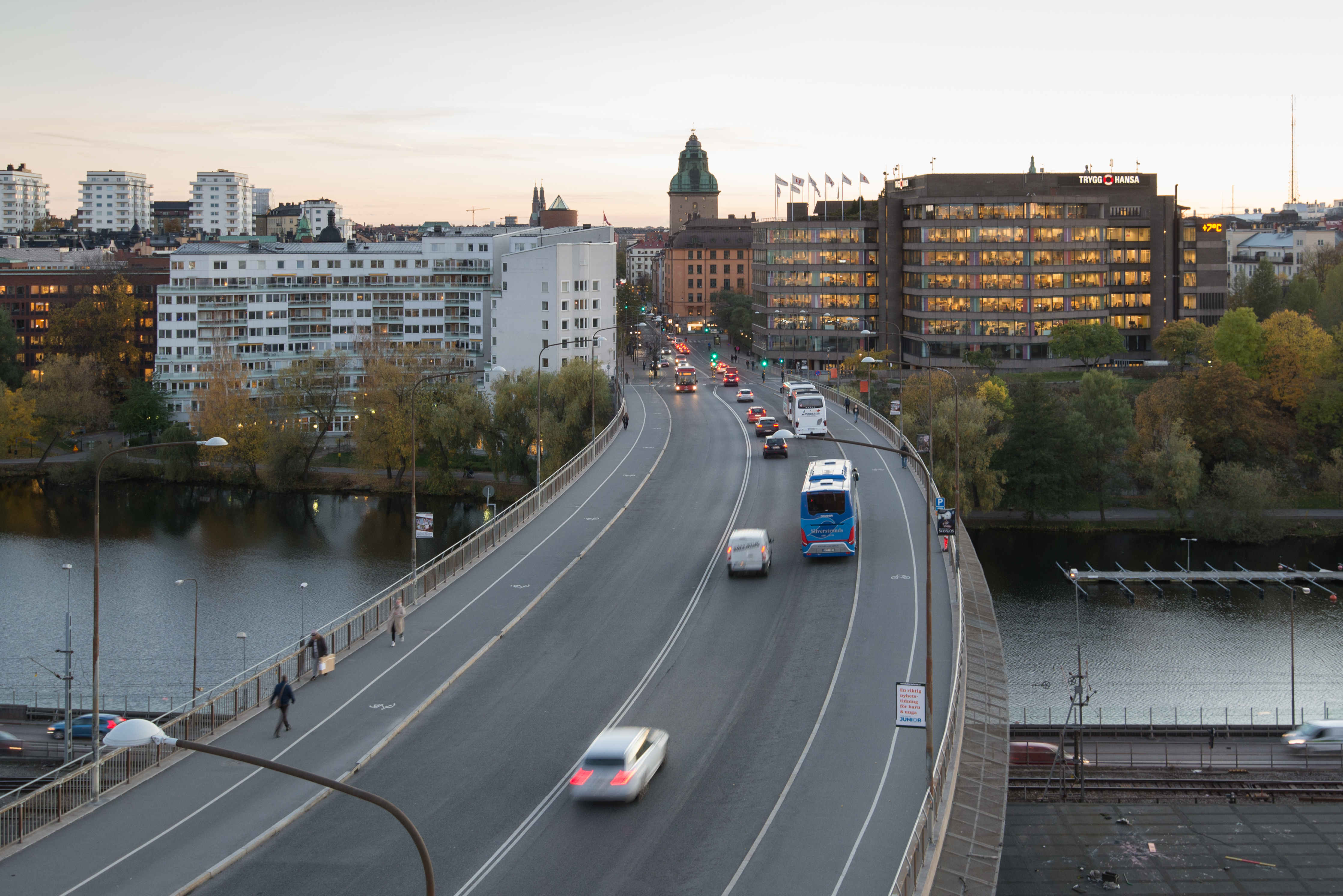 The bridge Barnhusbron in Stockholm.